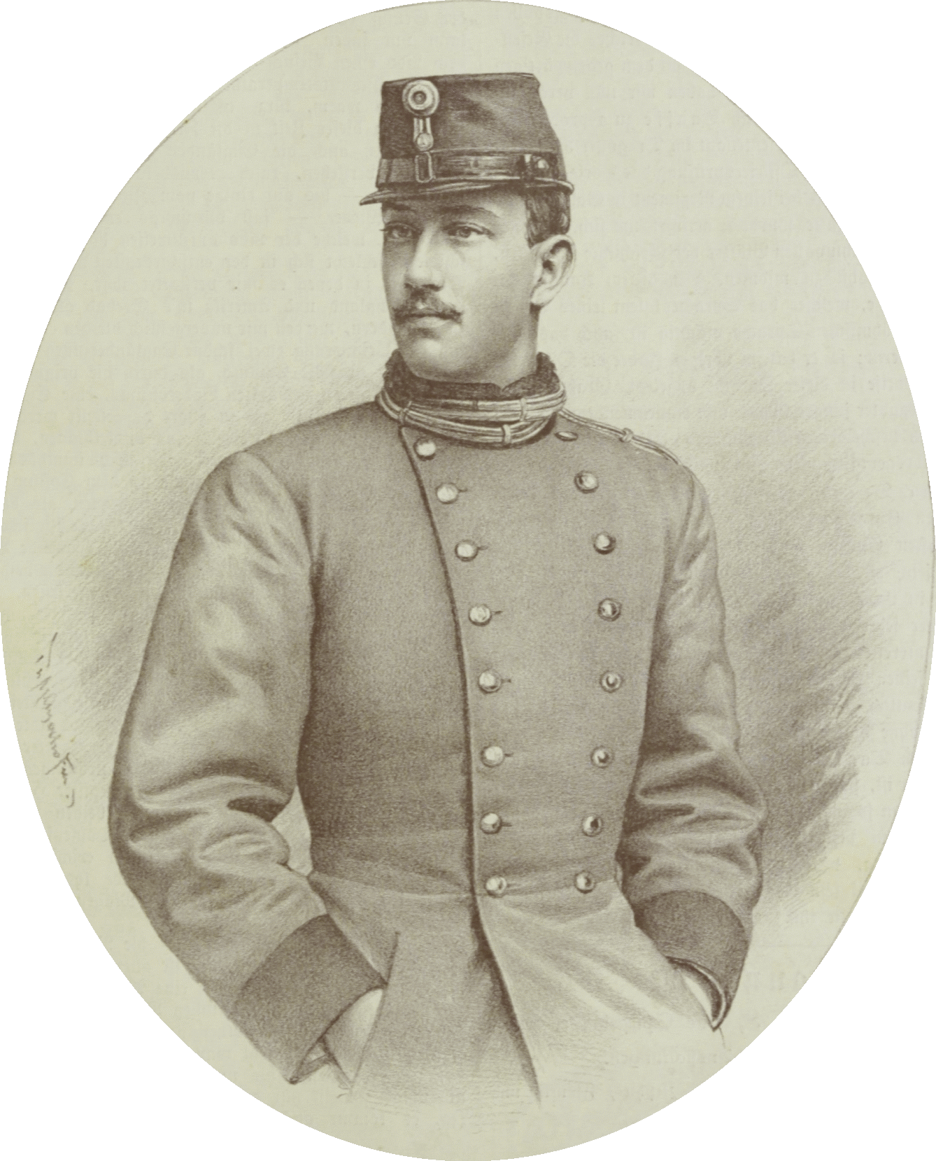 Heinrich Graf Taaffe, 12th viscount Taaffe (1872–1926), Austrian landholder